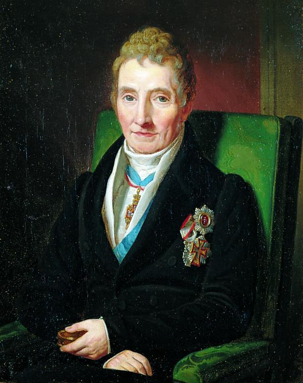 Depicted person: Johan Sigismund Møsting